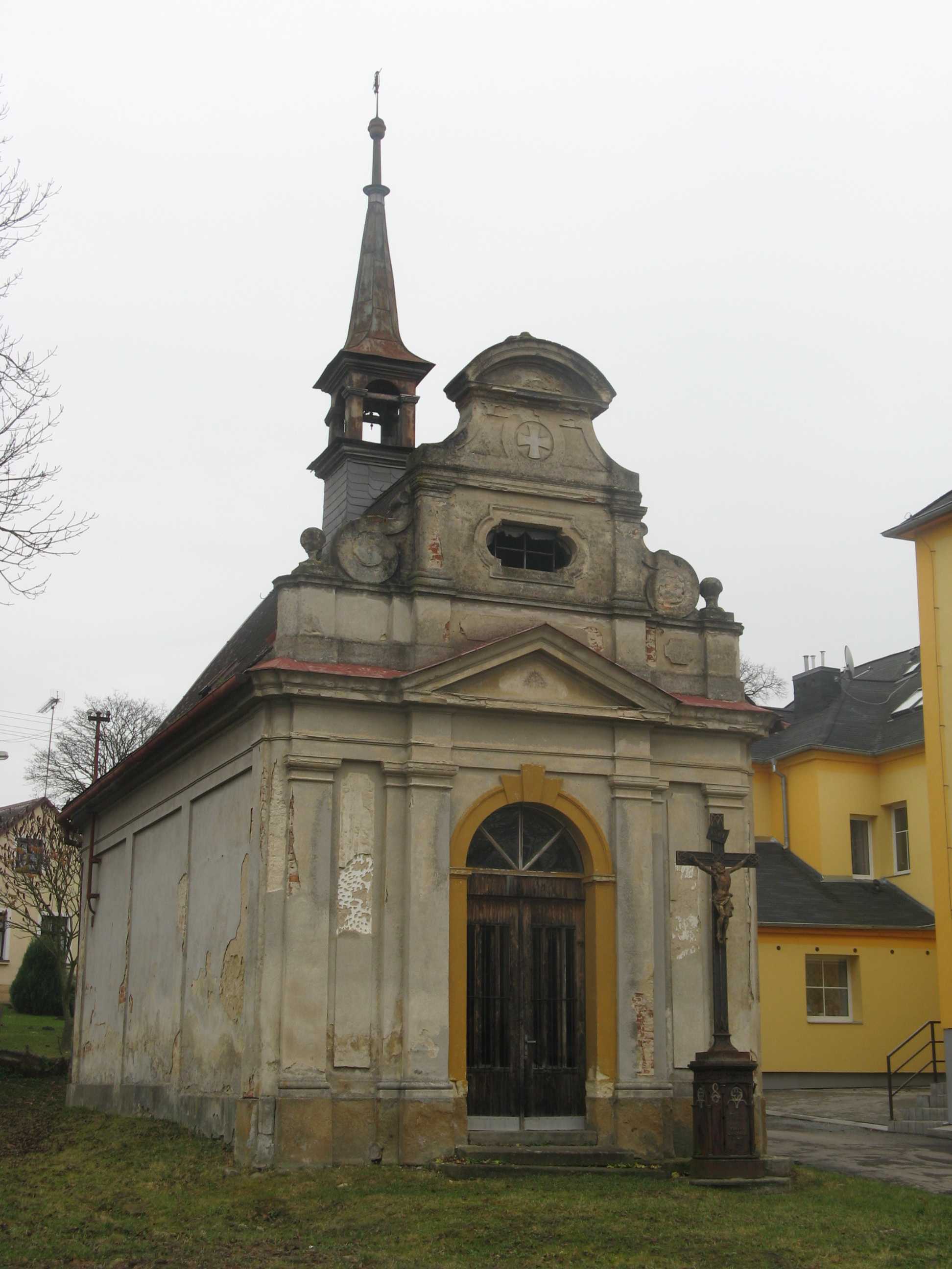 Chapel of Saint Anne, Svitavy-Lány, Czech Republic